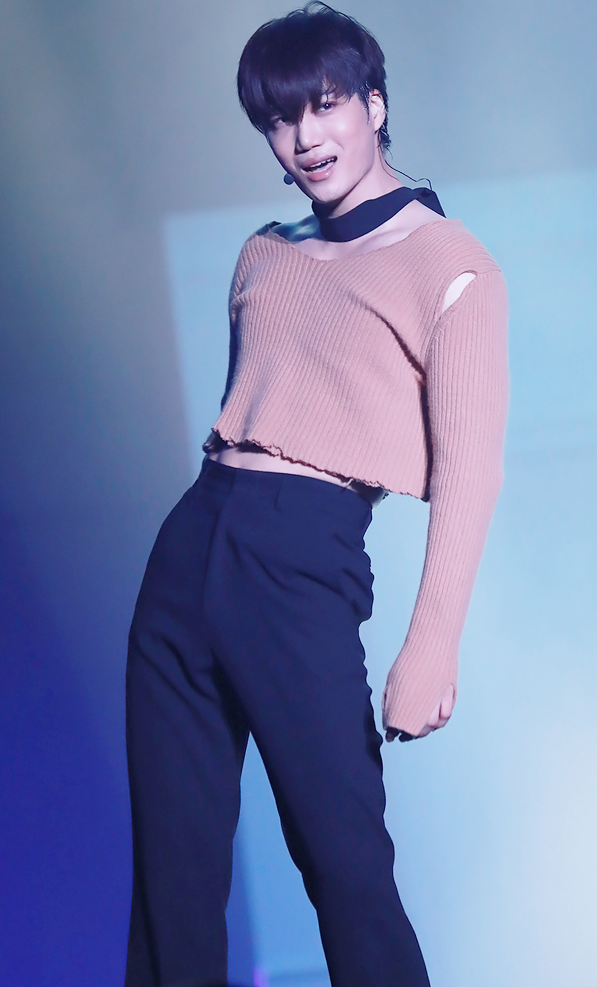 Kai during the "Exo Planet 4 - The EℓyXiOn" in Macau, on August 11, 2018.